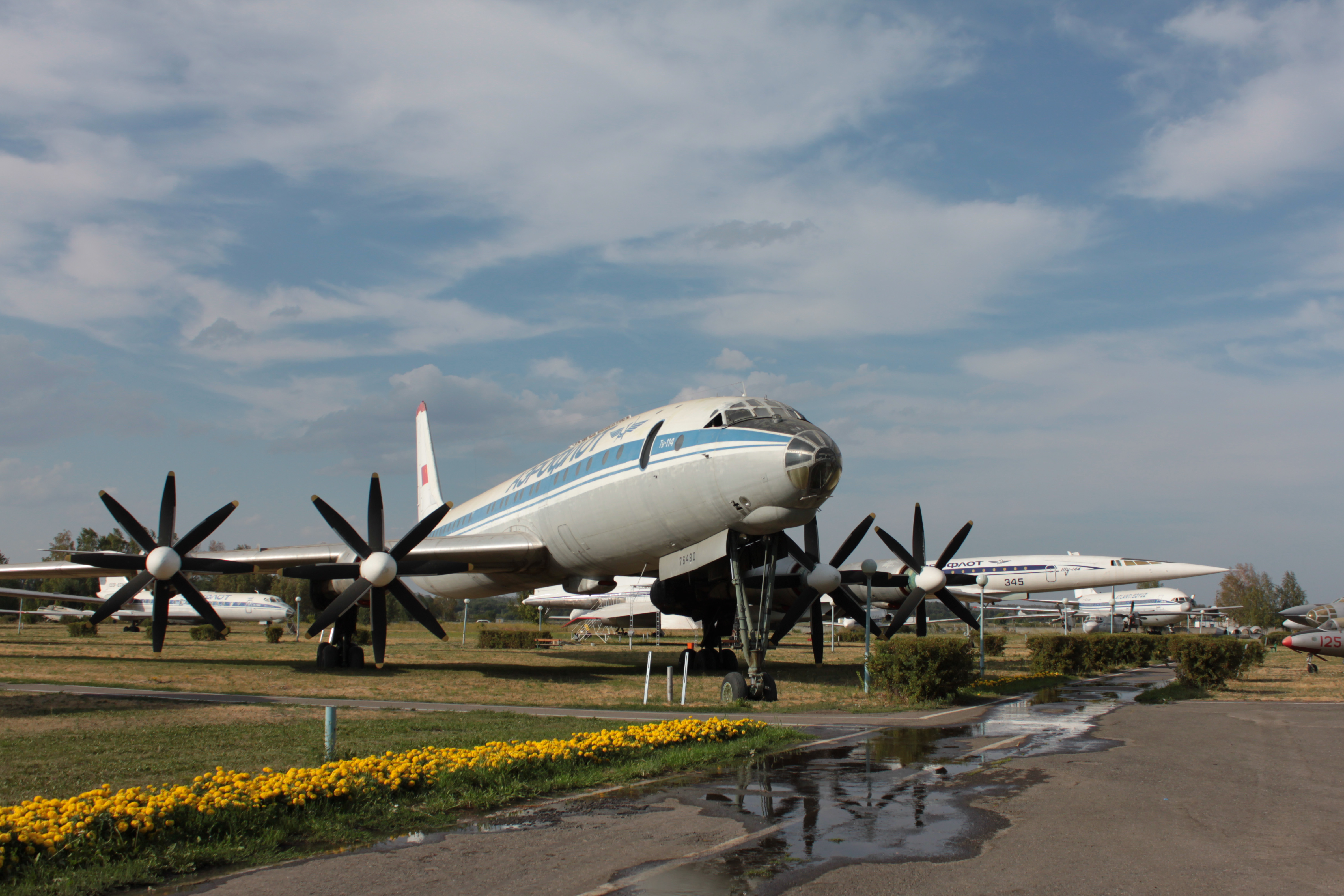 Tupolev Tu-114 in the Ulyanovsk Aircraft Museum.